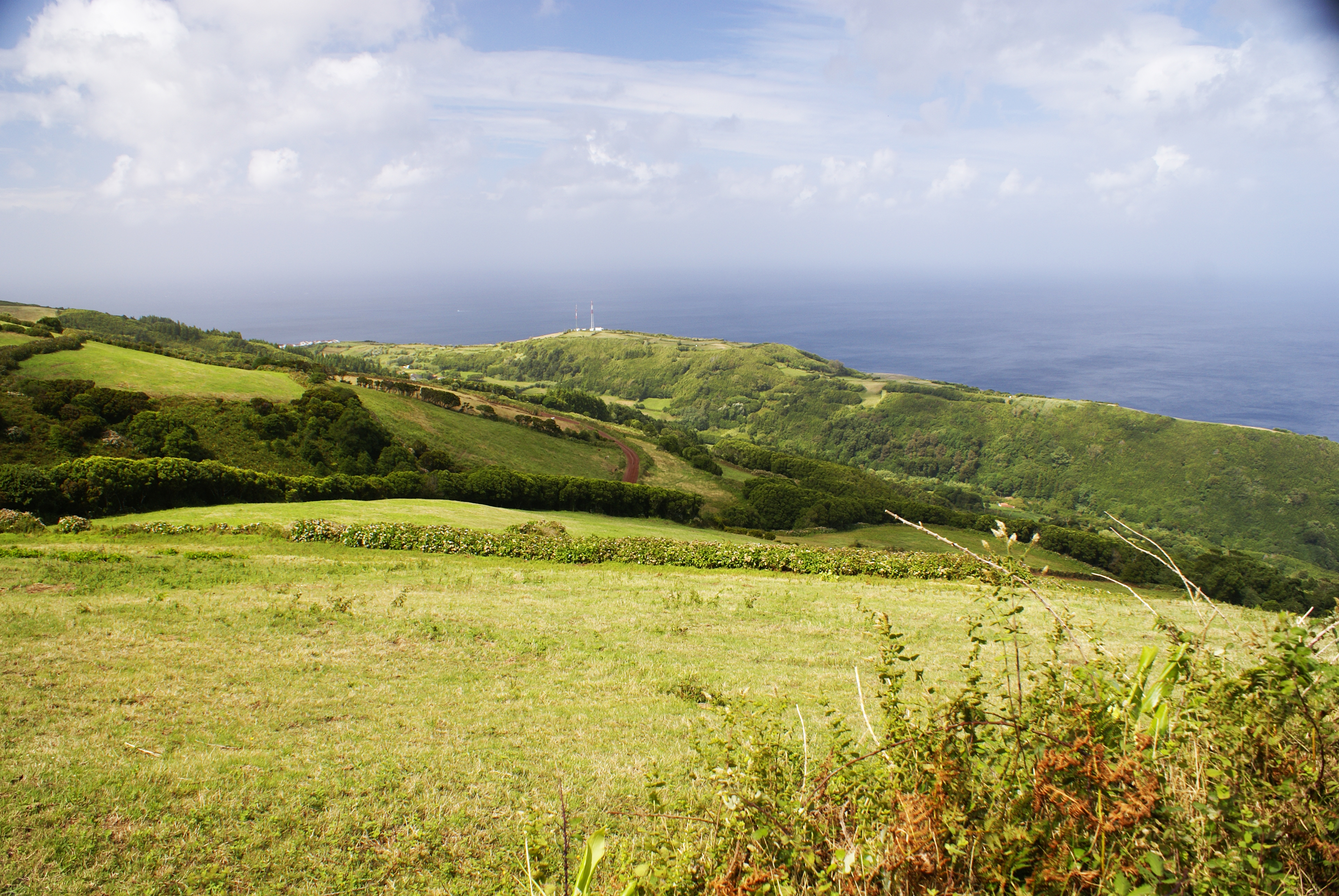 A perspective of the Pedro Miguel Graben, Pedro Miguel, Horta, Faial (Azores), Portugal